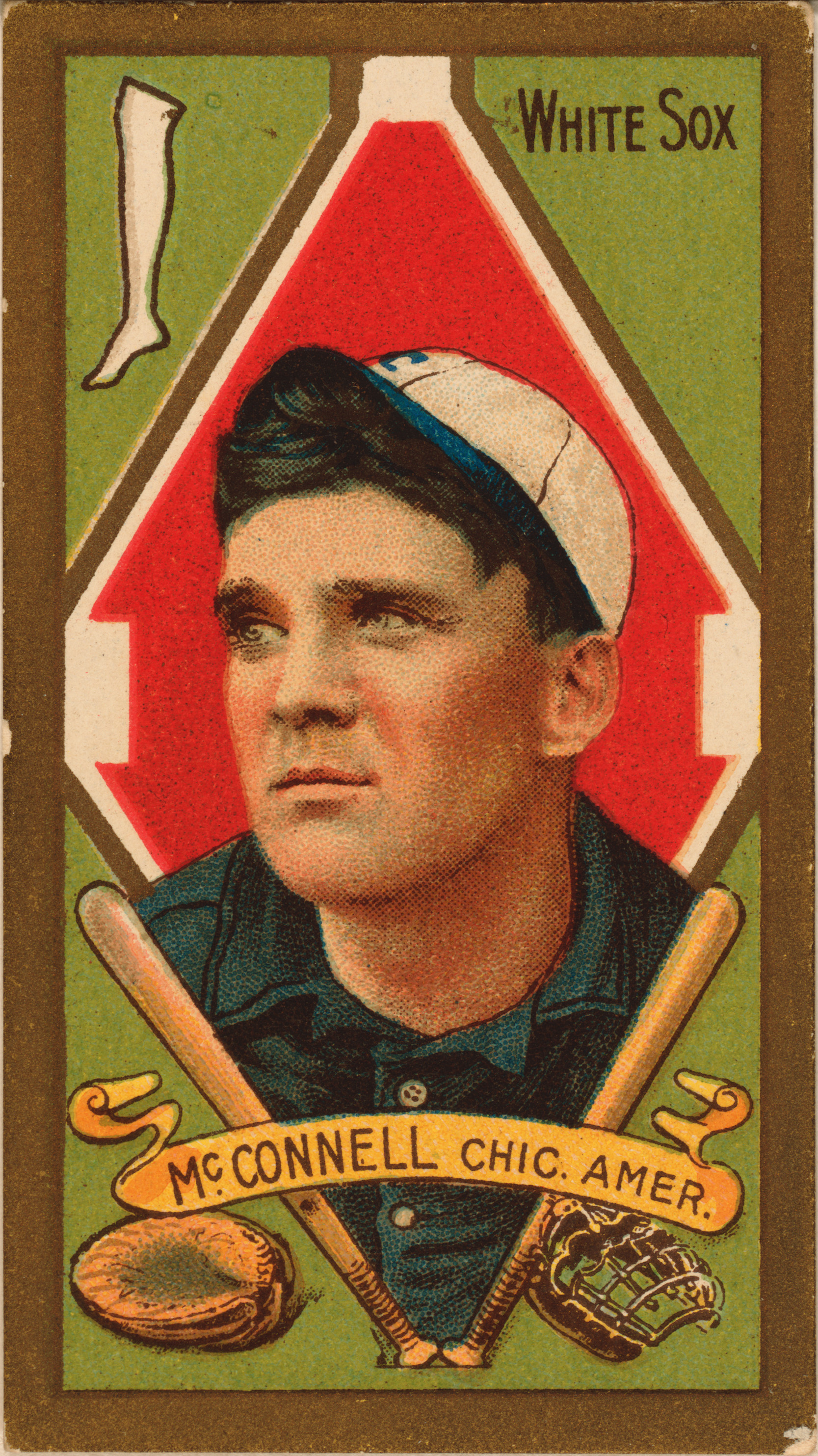 T205 Gold Borders 1911 reverse Ambrose McConnell, one of the Chicago Americans' infielders, played with independent teams and in minor leagues all the way from Rutland, Vt., to Beloit, Wisconsin, and back, till in 1907 he batted .320 for Providence, of the Eastern League. At the close of that year the Boston Americans purchased his services, and in 1908 and 1909 he was their regular second baseman. The White Sox got him in trade from Boston during the season of 1910. G[ames] | B[atting] | F[ielding] 1908 ... 140 | .279 | .939 1909 ... 121 | .239 | .954 1910 ... 44 | .252 | .954